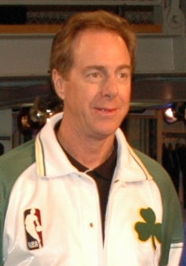 Dave Cowens posing with other NBA Legends and the Larry O'Brien NBA Championship Trophy (not shown) for the 2005 NBA Legends Tour: Destination Finals kick off held at the NBA store. The Tour visited various cities and United Service Organizations (USO) supported military installations as part of the NBA's on going effort to support service members during the upcoming playoff season.